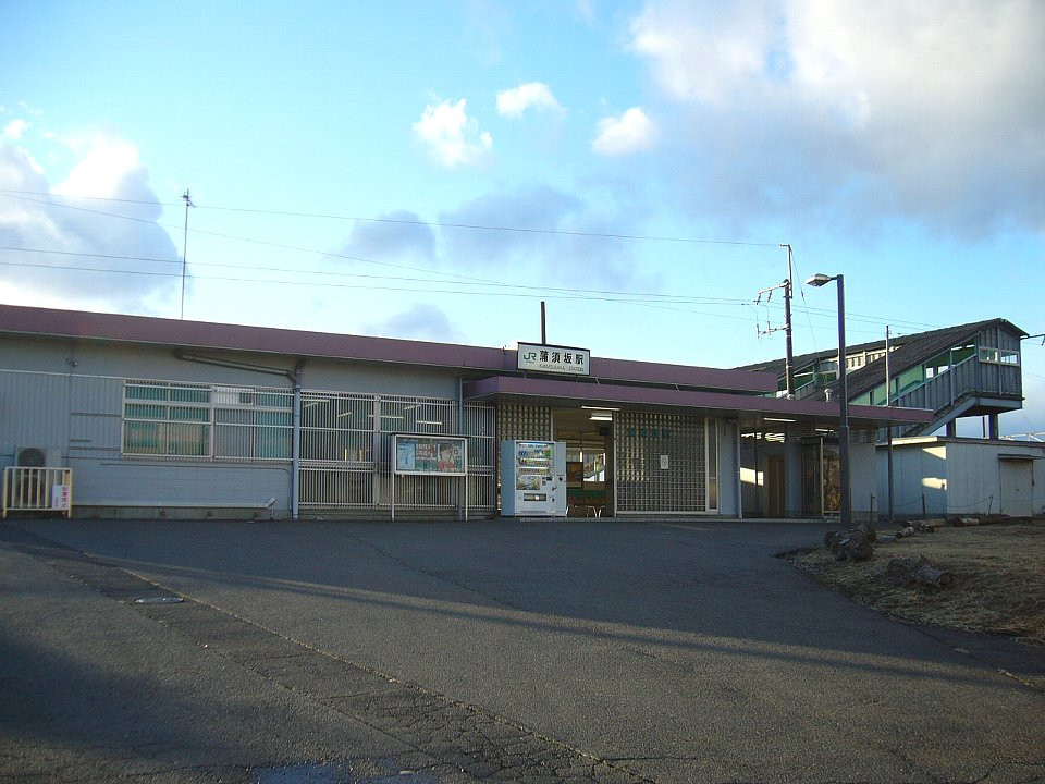 Kamasusaka Station of the Utsunomiya Line, Midori, Tochigi, Japan